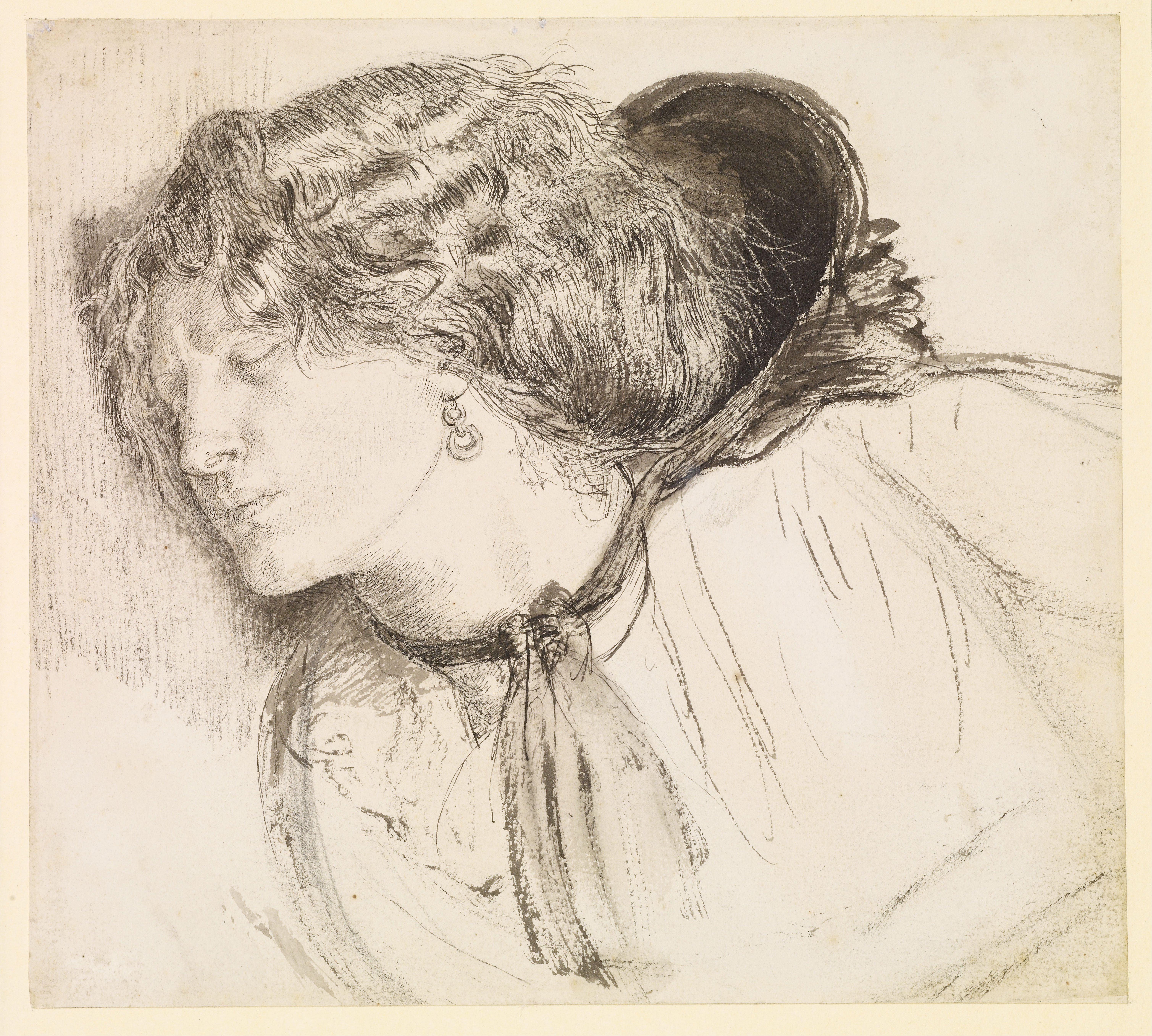 This is the finished study finally used for the oil painting, Found (Delaware Art Museum, Wilmington). Rossetti abandoned the painting for several years, taking an interest in it again only in 1859 on the offer of a commmission from the Newcastle collector James Leathart. The immediate results seem to have been a number of studies in pen and ink of the heads of the man and woman, including this sheet. The model is Fanny Cornforth; although she is known to have sat for Rossetti in early 1858 this would appear to be Rossetti's earliest surviving drawing of her.